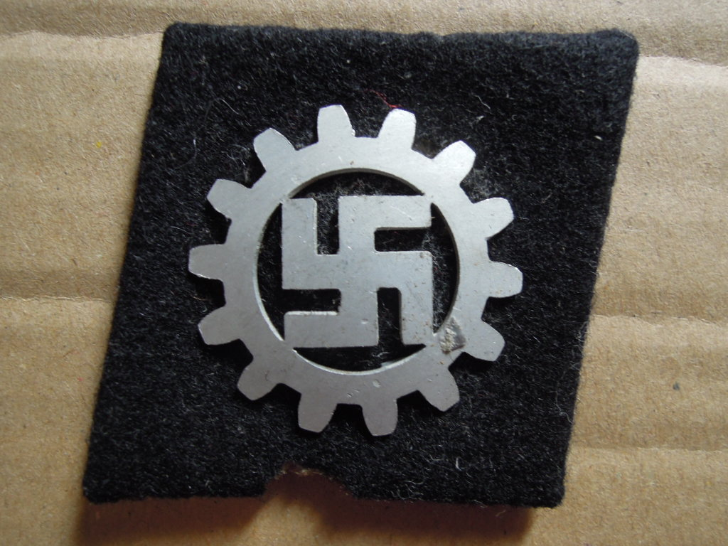 DAF uniform diamond, RZM marked